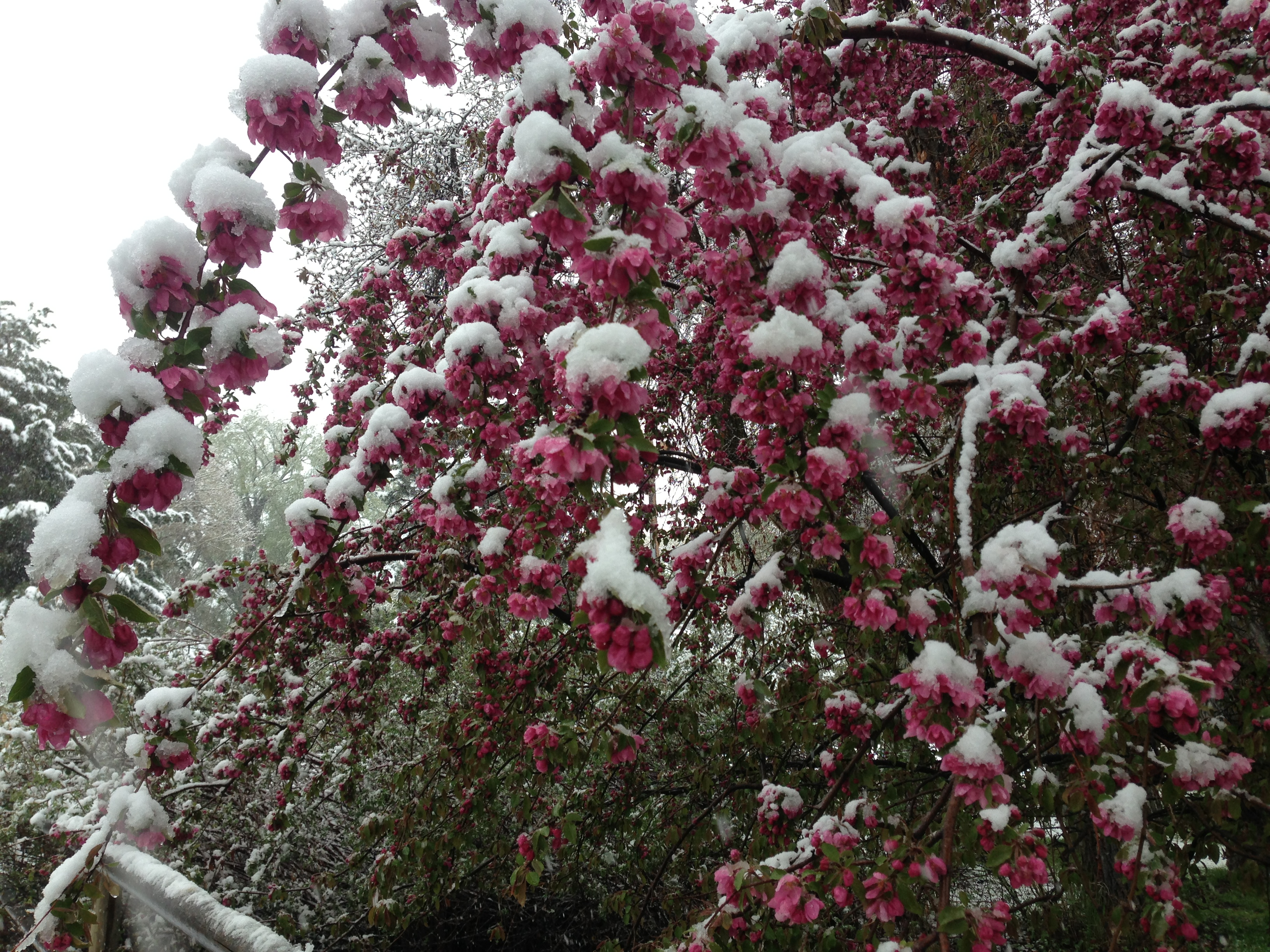 Snow on a Crabapple in Lamoille, Nevada